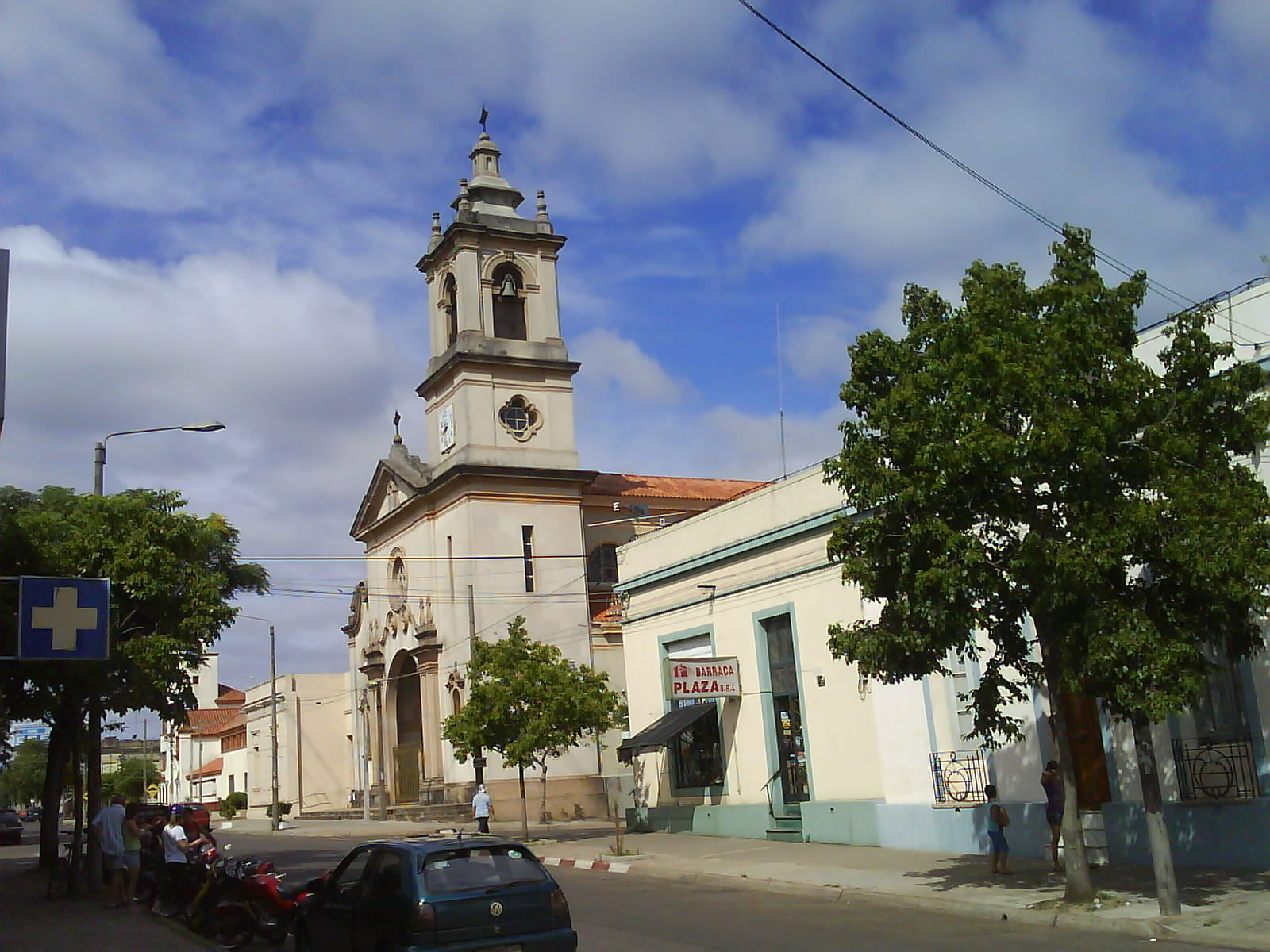 Iglesia Artigas